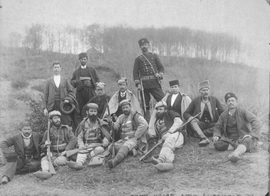 Doncho Shtipyancheto, Dame Gruev, Mishe Razvigorov, Efrem Chuckov, Atanas Babata, Slavcho Abazov, Marko Sekulichki